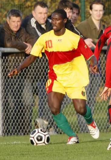 Ismaël Bangoura, Guinean football player, during Guinean national team friendly match against the Stade Rennais youth team